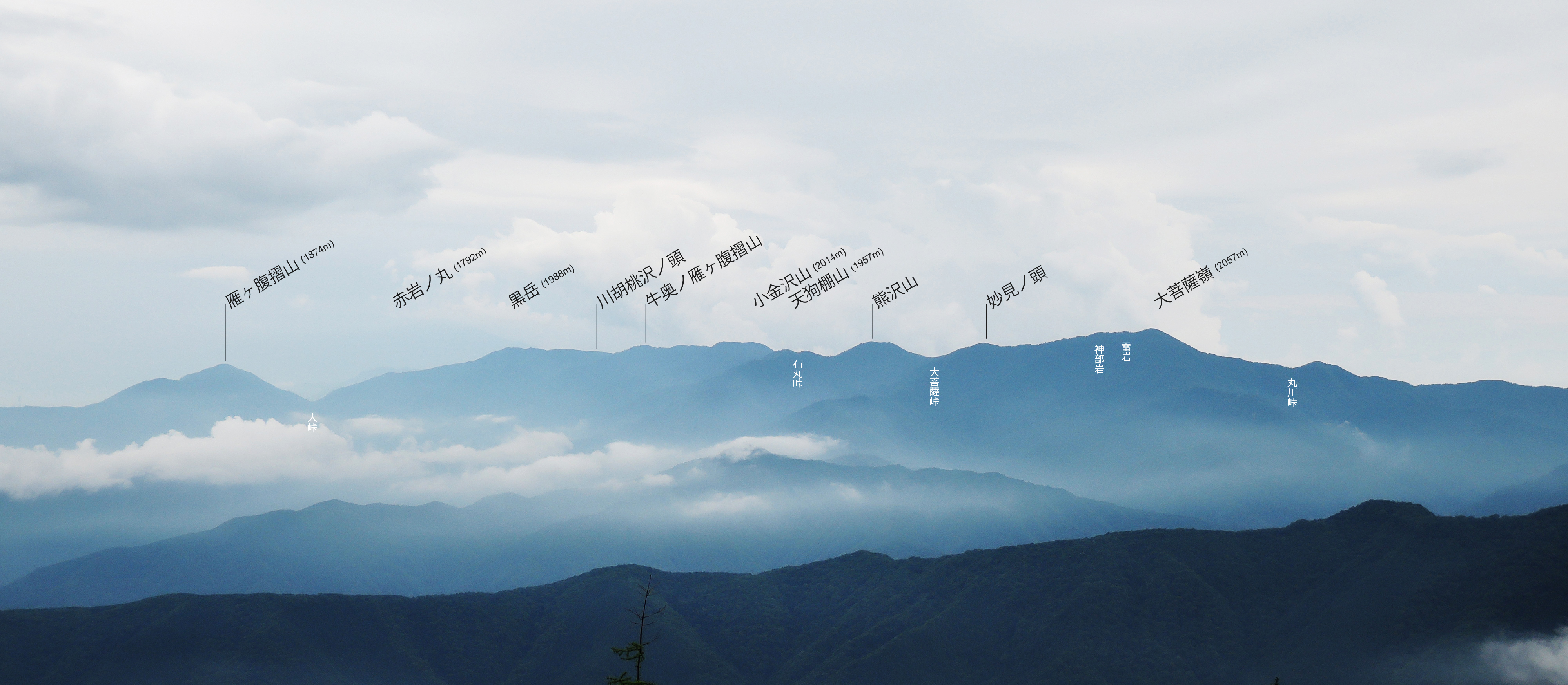 Daibosatsu Mountains as seen from Mount Kokumotori, tagged with peak names and heights